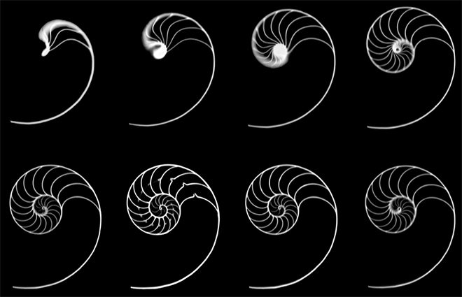 Nautilus Pompilius